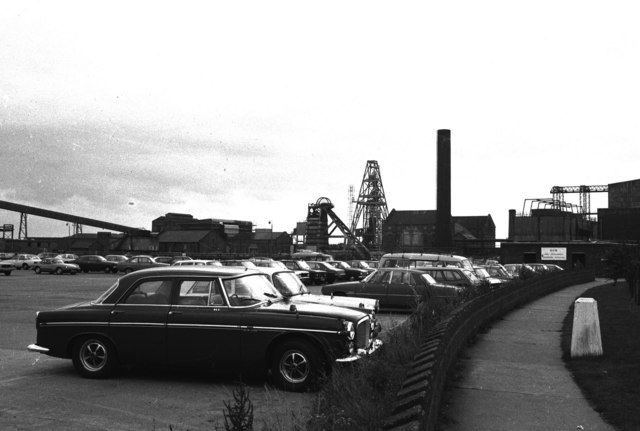 Markham Main Colliery Now demolished. Was then still running one of two large, fast steam winding engines by Markham of Chesterfield.